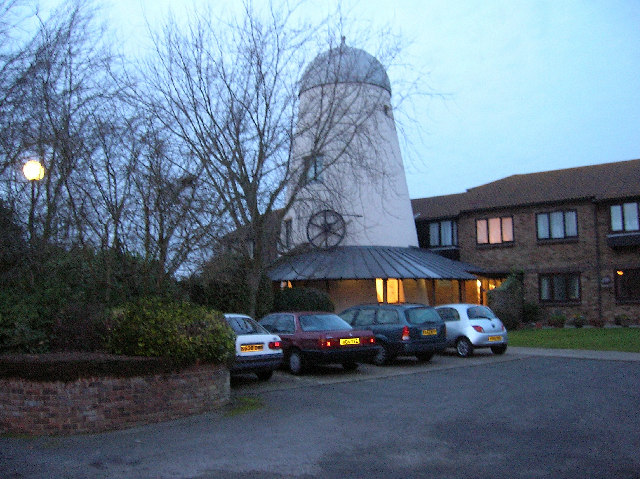 Photograph of Nytimber windmill